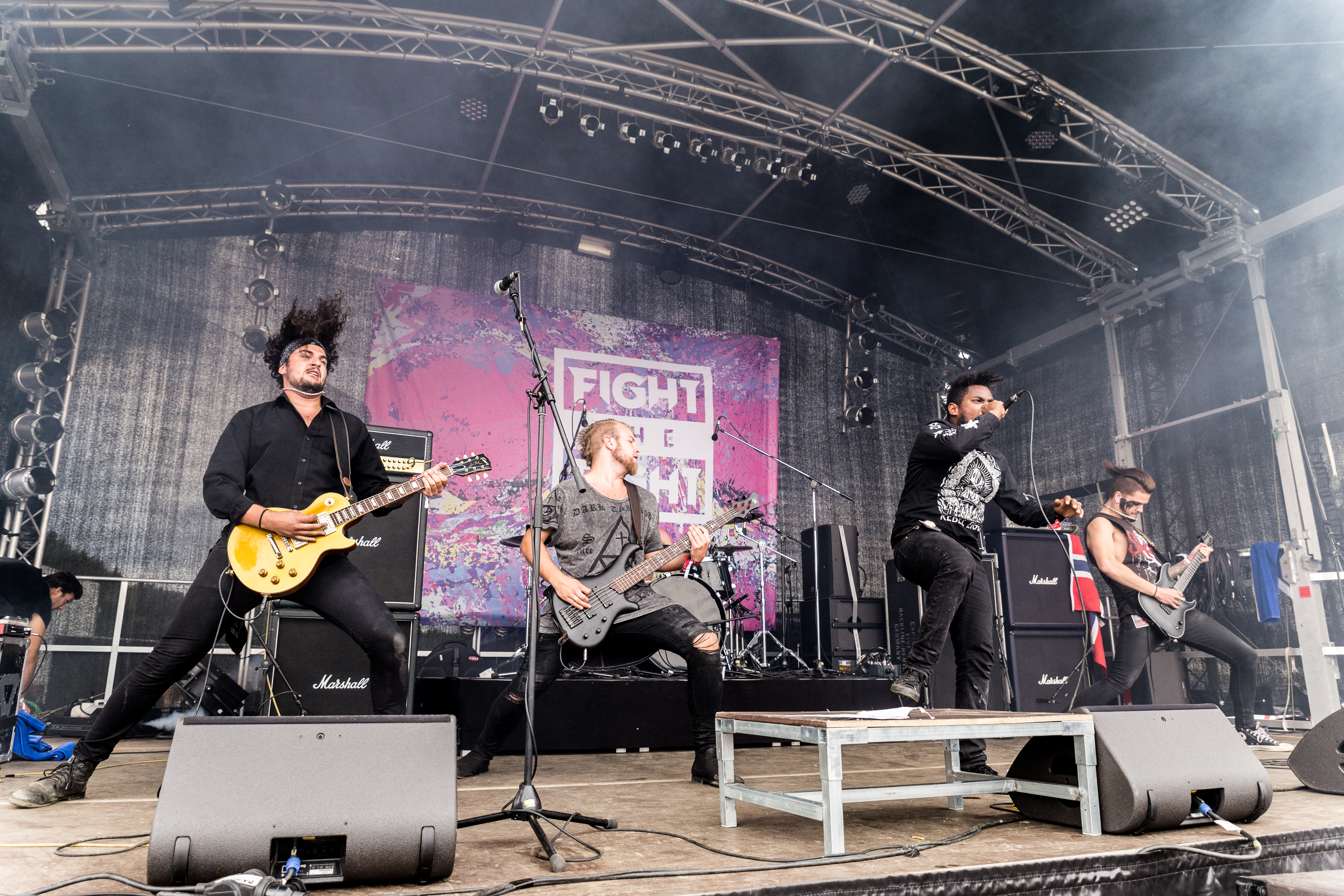 The Norwegian metalcore band Fight the Fight at the Summer Breeze Open Air 2017 in Dinkelsbühl/Germany.